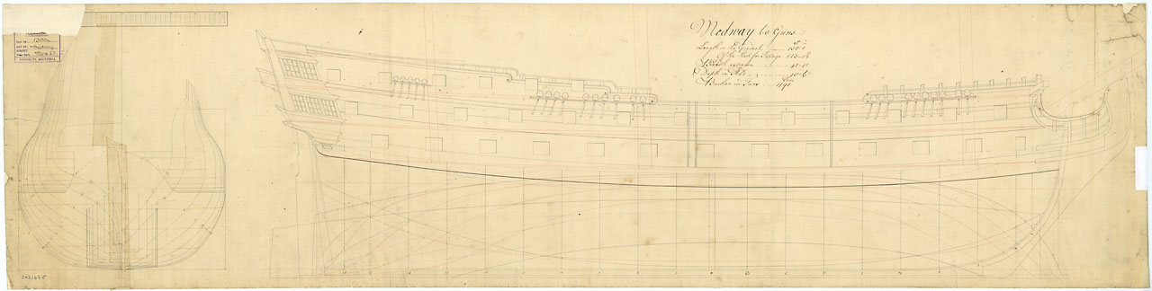 Medway (1755) Scale: 1:48. Plan showing the body plan, and sheer lines with the longitudinal half-breadth superimposed for Medway (1755), a 60-gun Fourth Rate, two-decker. MEDWAY 1755